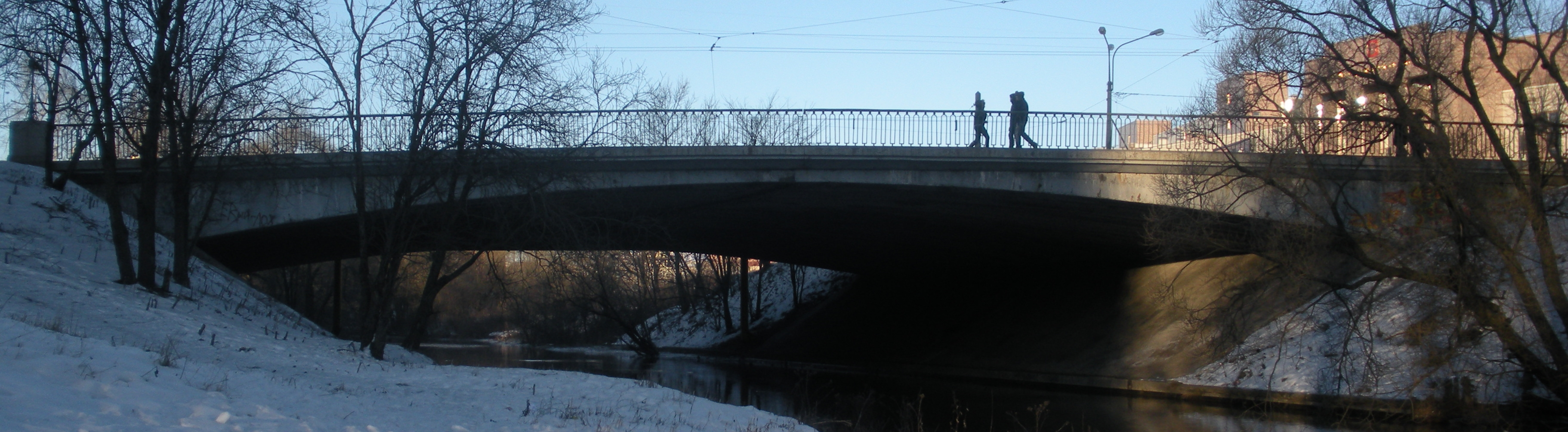 Zanevsky bridge in Saint Petersburg.